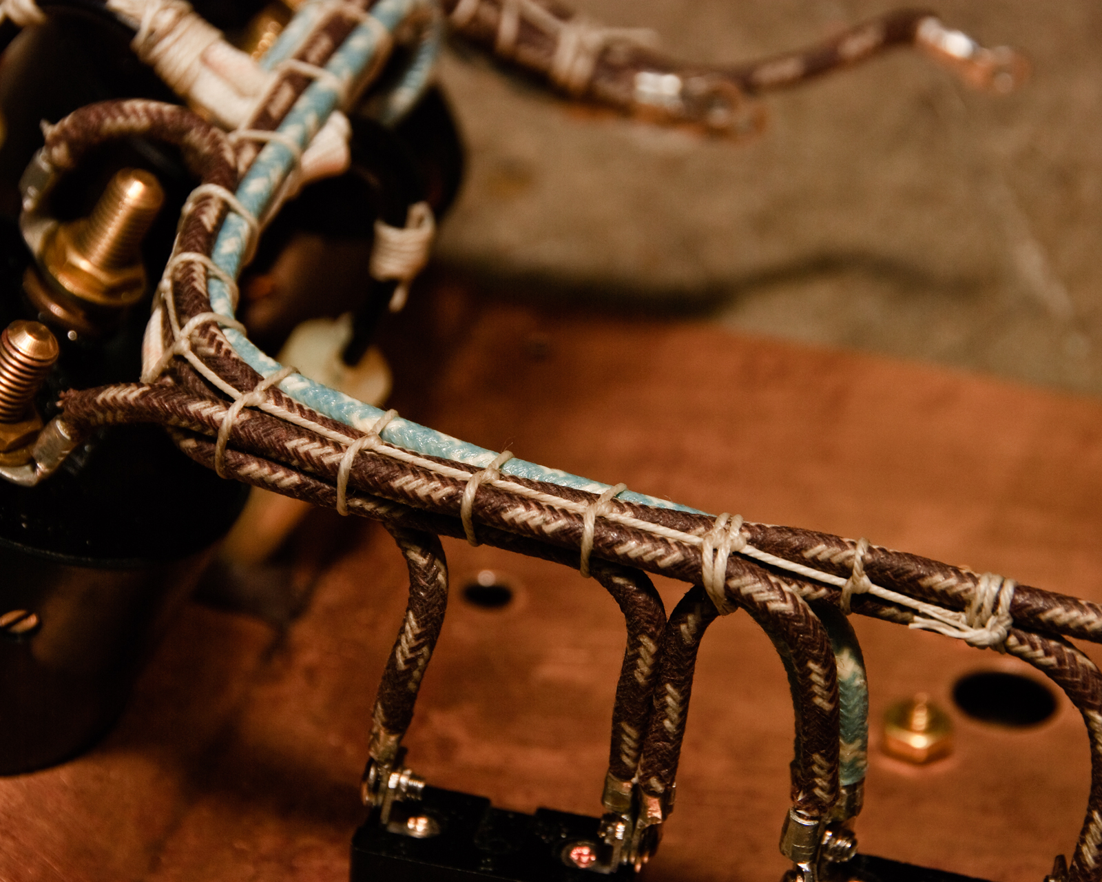 Example of a cable laced wiring harness from a Tesla coil. Original Flickr Description: "The wiring on the main control panel is organized and bundled neatly. Every wire is easy enough to trace by eye. The bundling is done with a technique called "cable lacing". A series of knots and stitches from a continuous piece of wax-impregnated cotton or twine is used to bundle cables together. It takes some practice, but it'll outperform zip ties in that it won't crush the insulative jackets on wiring and that it's not going to shift axially on you if it's loose. Likewise, my bundles have a rectangular cross section. Zip ties can't conform and keep bundle shapes other than ellipses."